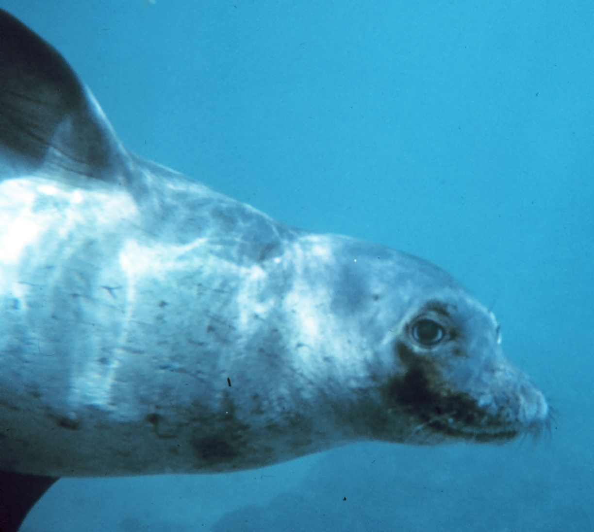 Hawaiian monk seal - Monachus schauinslandi[1]